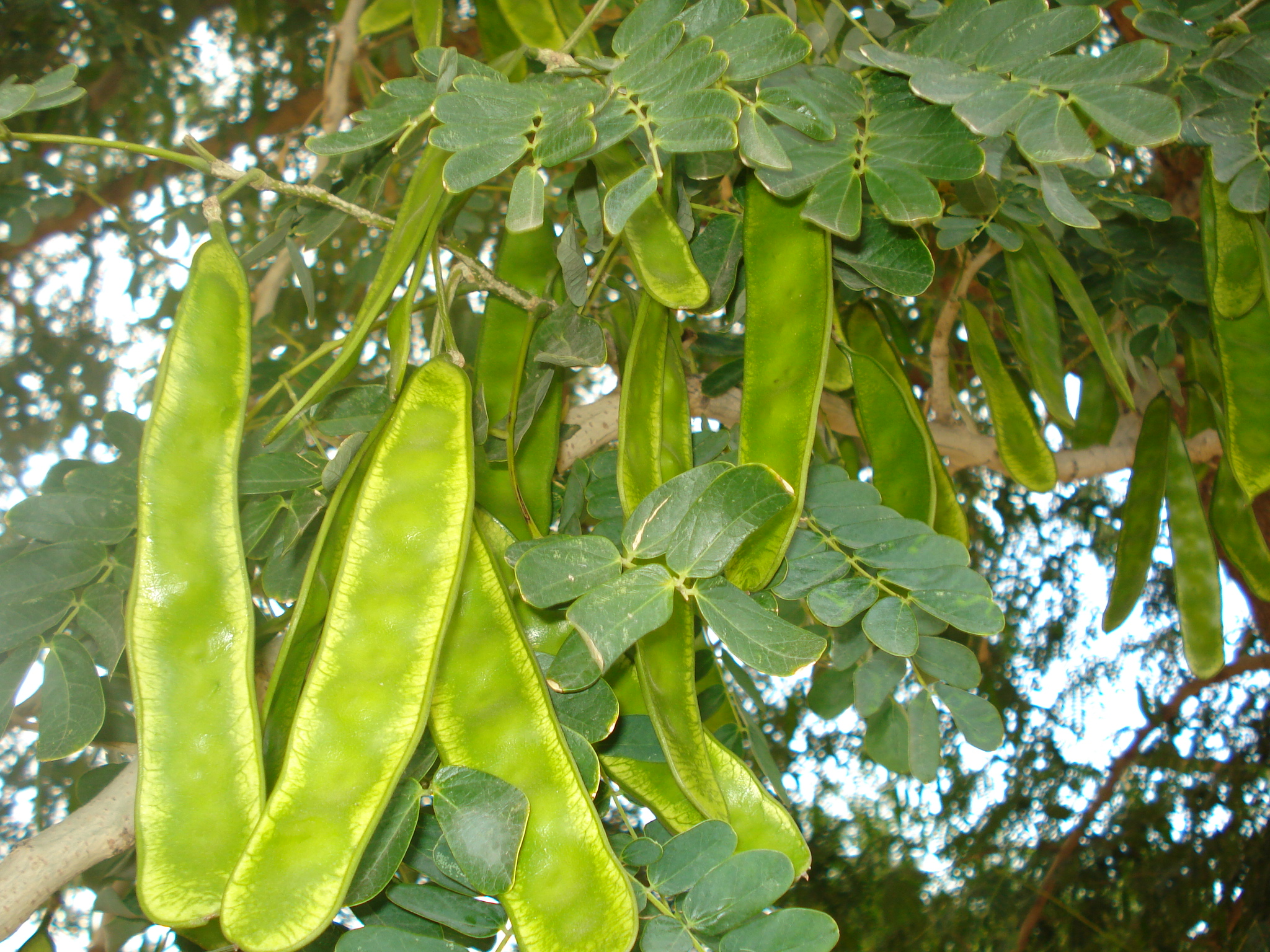 Albizia lebbeck pods at Fatehpur in Sikar district Rajasthan,India